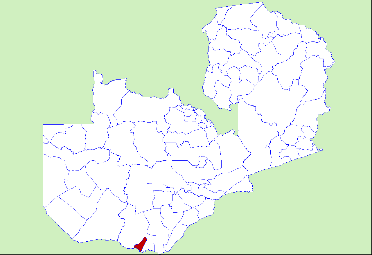 District locator in Zambia